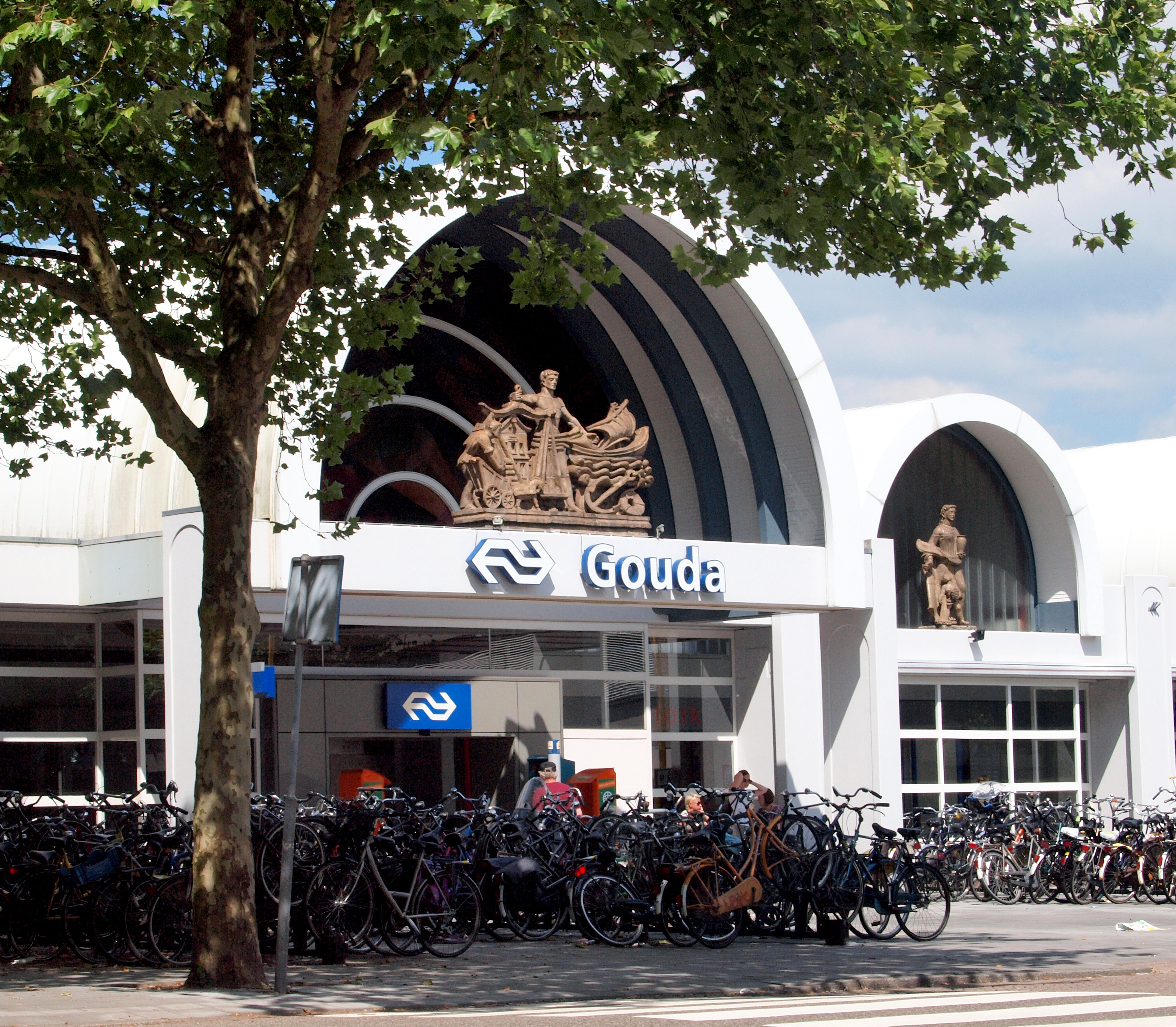 ralway station at gouda, the netherlands